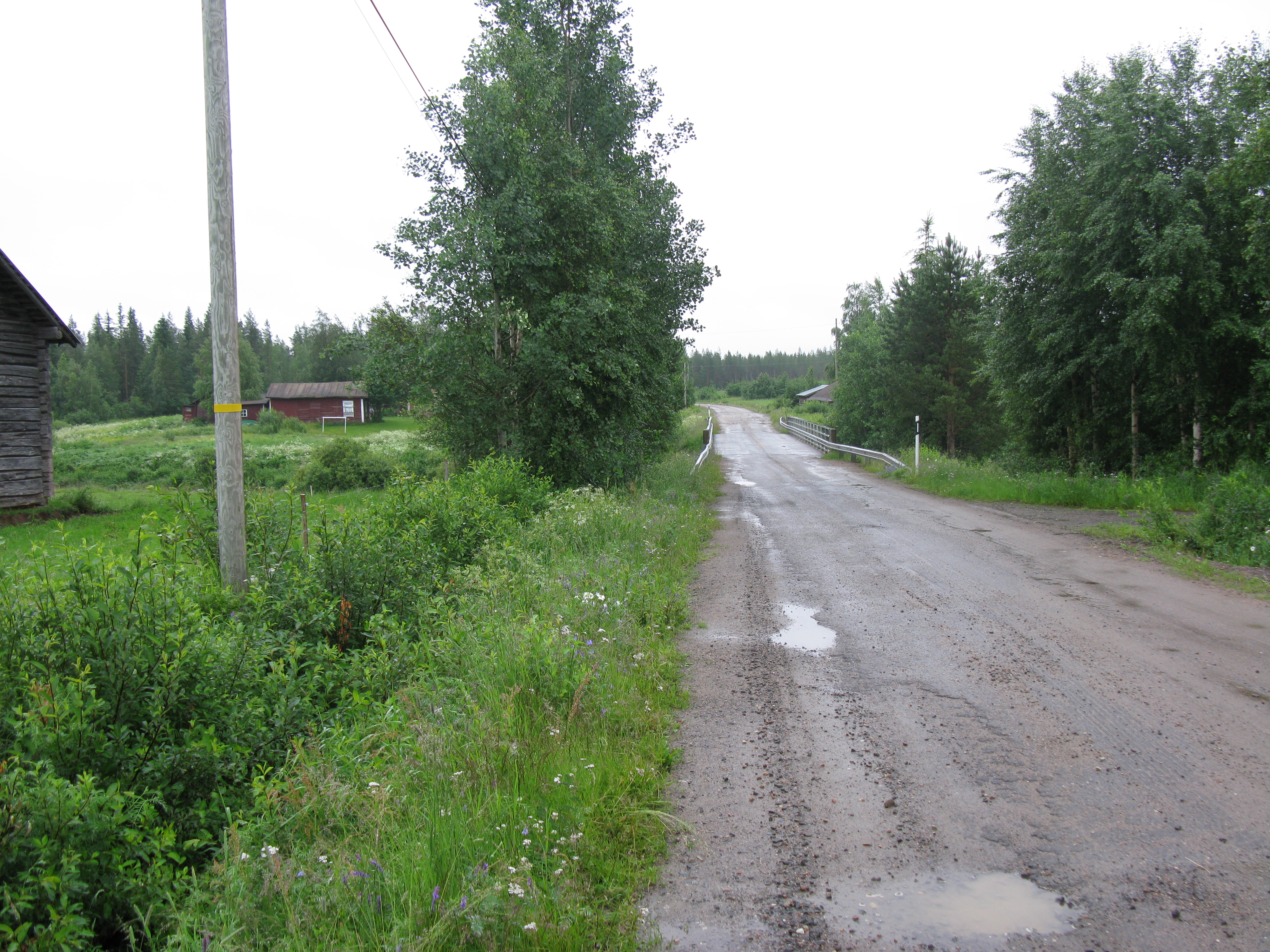 A bridge accross the Utosjoki river in the local road to the village of Yli-Utos in Utajärvi, Finland, seen towards the East.